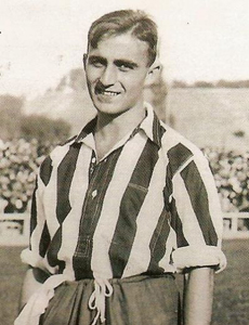 Monchín Triana. Atletico de Madrid and Real Madrid player.